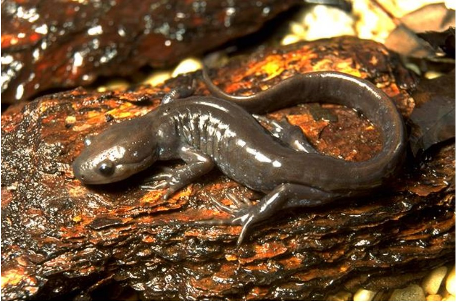 Jefferson Salamander (Ambystoma jeffersonianum).